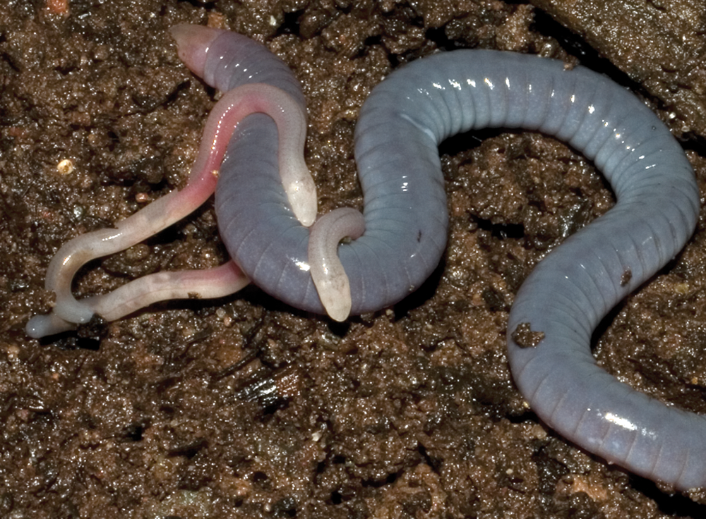 Presumed Microcaecilia dermatophaga mother with two hatchlings during the period of extended post-hatching parental care and maternal dermatophagy (right).